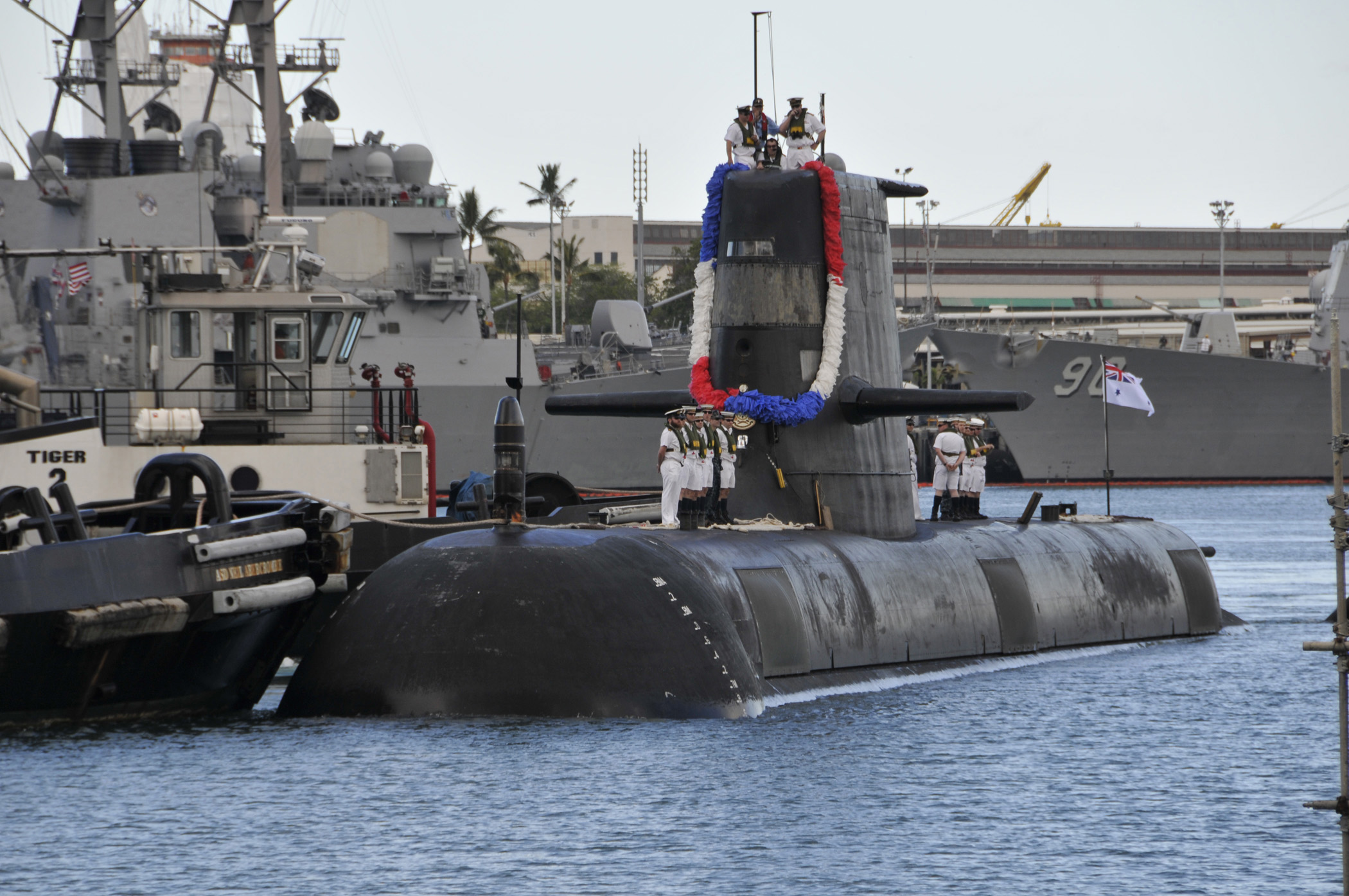 HMAS Farncomb docking at Pearl Harbor, Hawaii, in June 2012. She subsequently participated in the RIMPAC 2012 exercise.